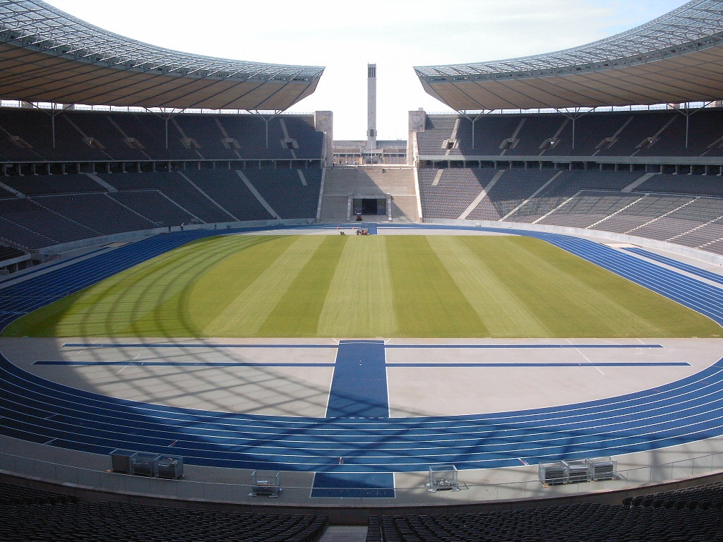 Berlin's Olympic Stadium after its renovation in 2004/2005